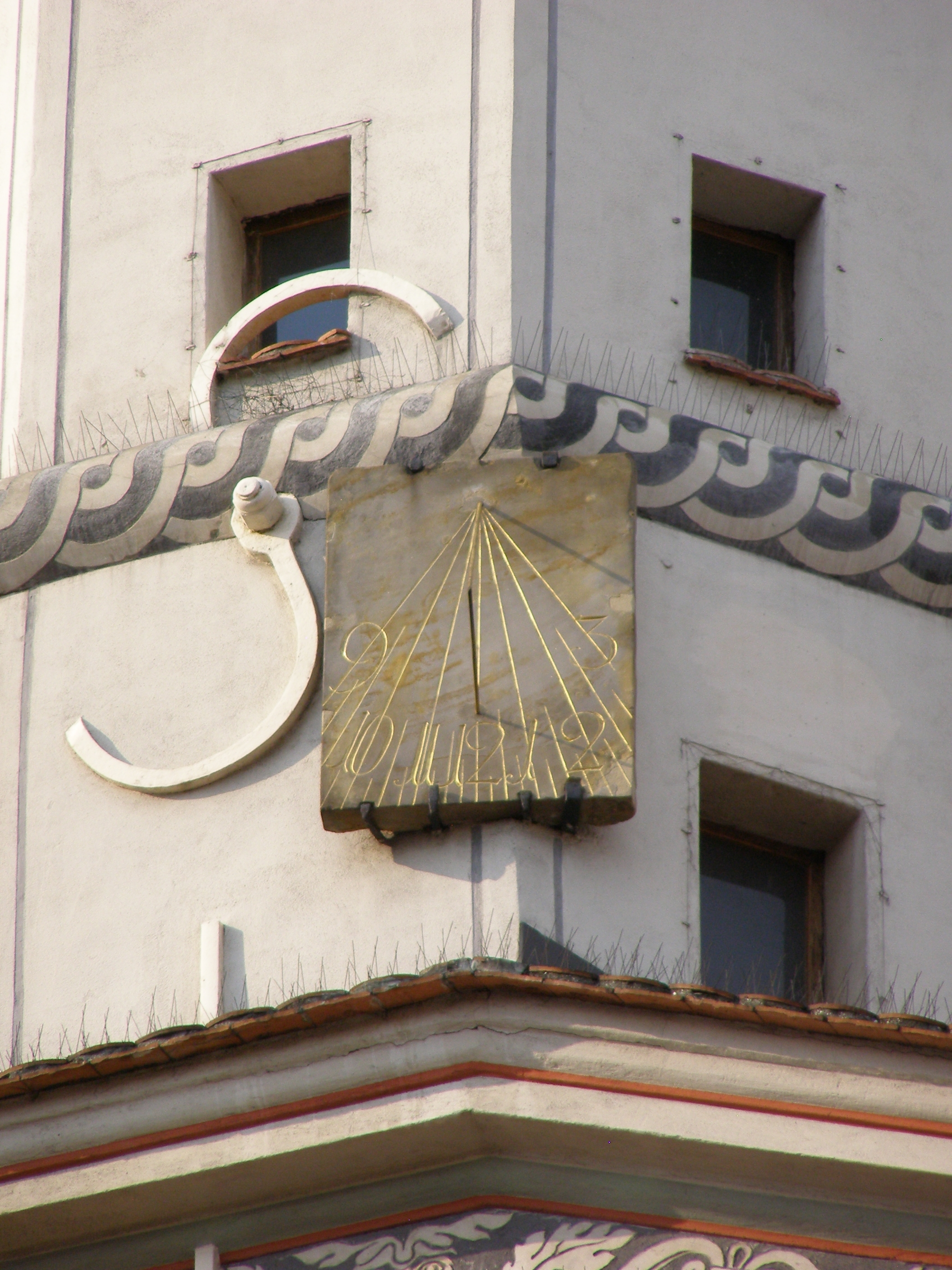 Poznań - sundial on the City Hall wall